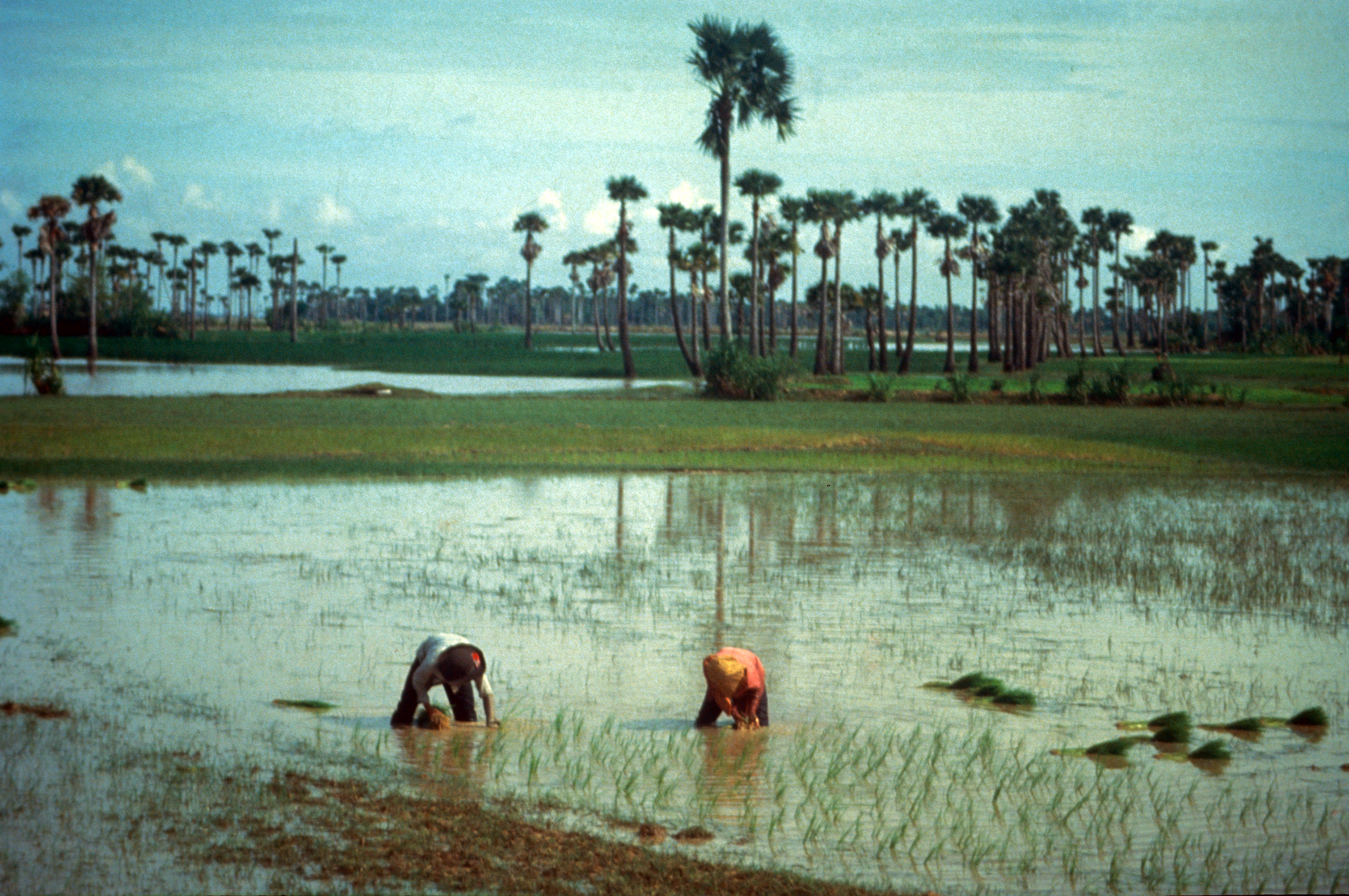 Rice farming in Cambodia